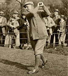 Harry Vardon (1870-1937), golfprofessional